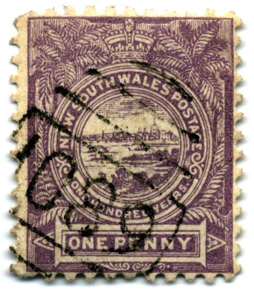 Scan of New South Wales 1-penny commemorative stamp of 1888, made by User:Stan Shebs